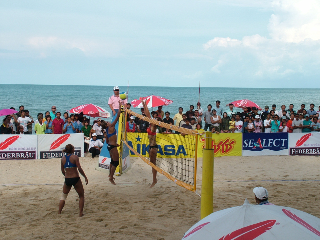 Nai Phlao Beach, Amphoe Khanom, Nakhon Si Thammarat Province, Thailand